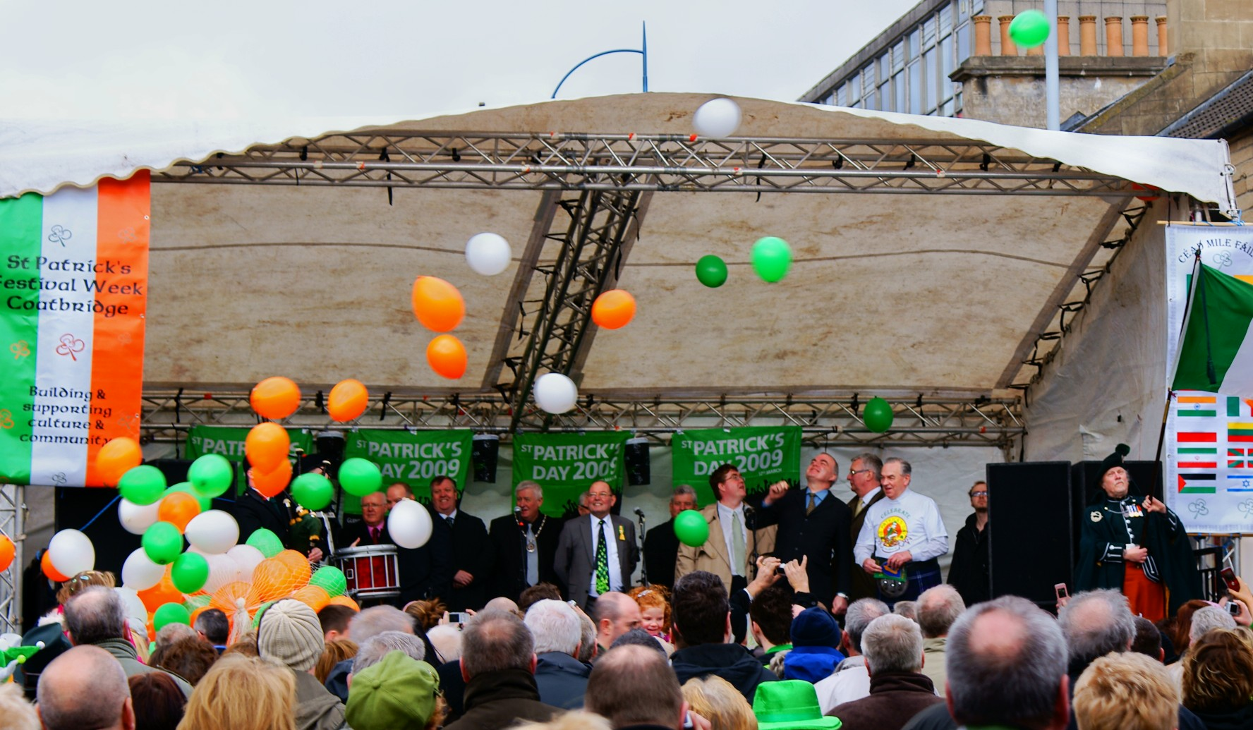 Photo of main stage at St. patrick's day festival in coatbridge 2009